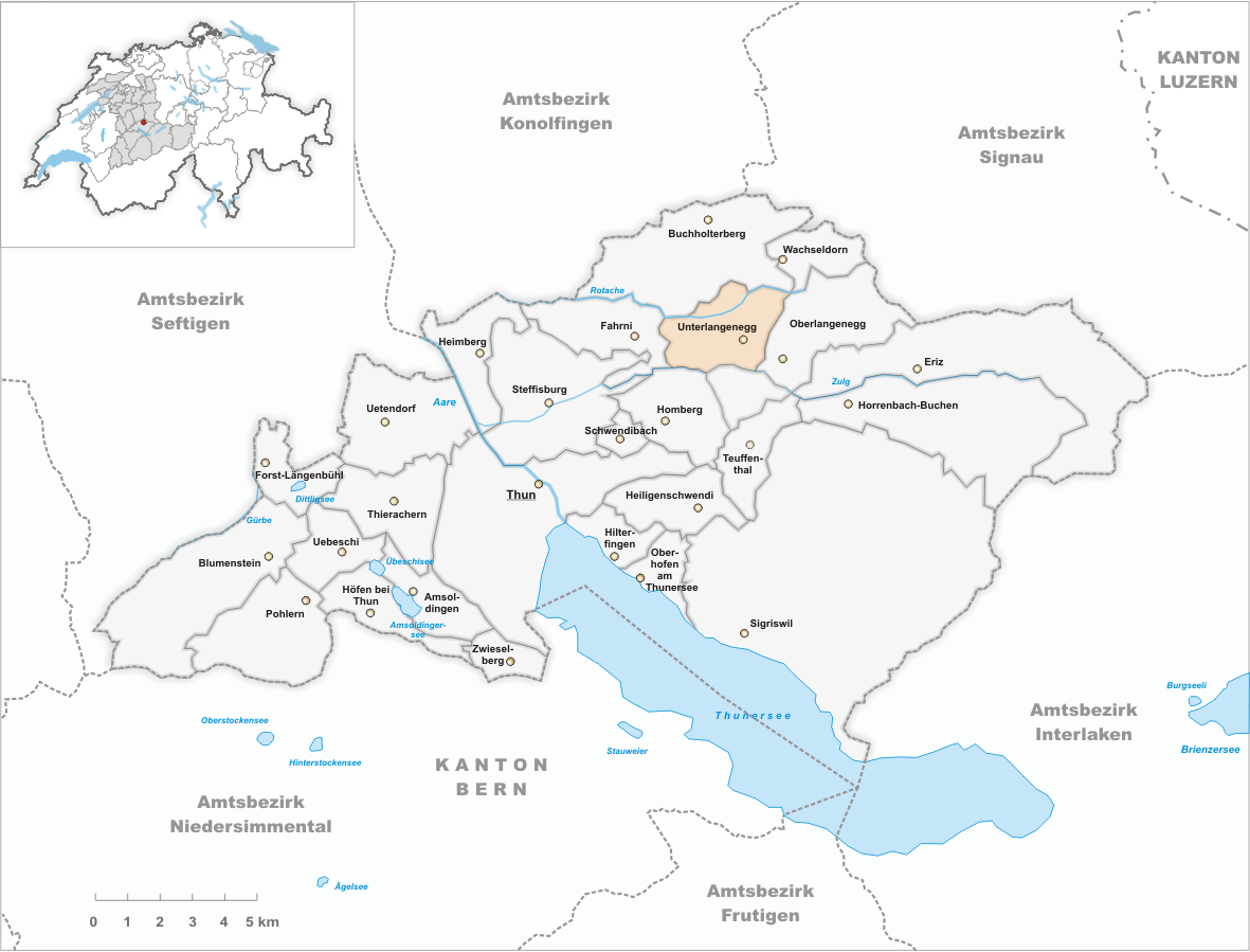 Municipality Unterlangenegg